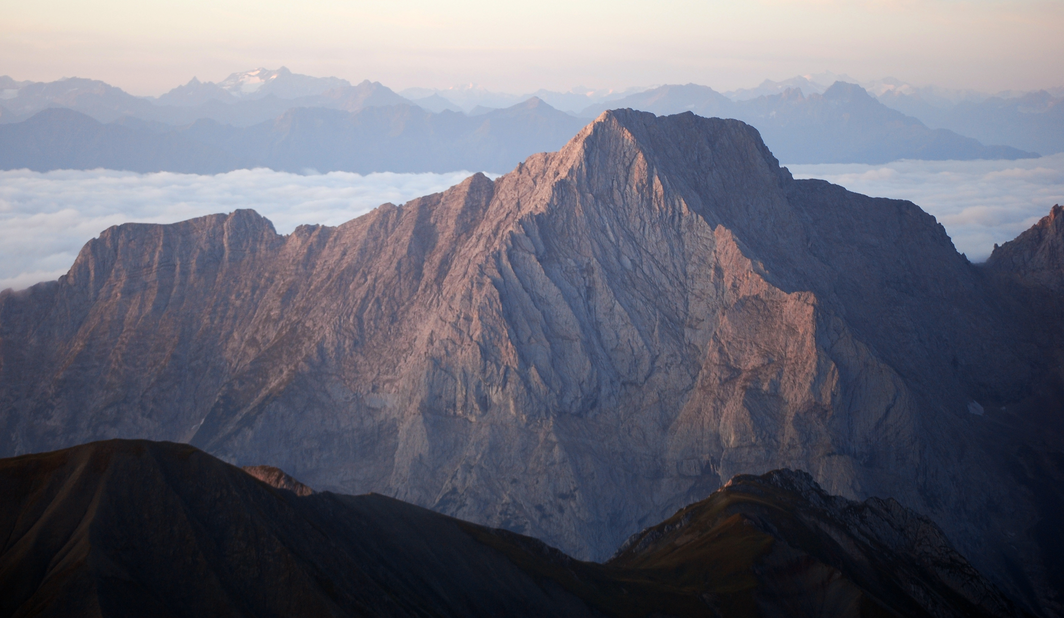 Hochwand from N (Jubiläumsgrat)